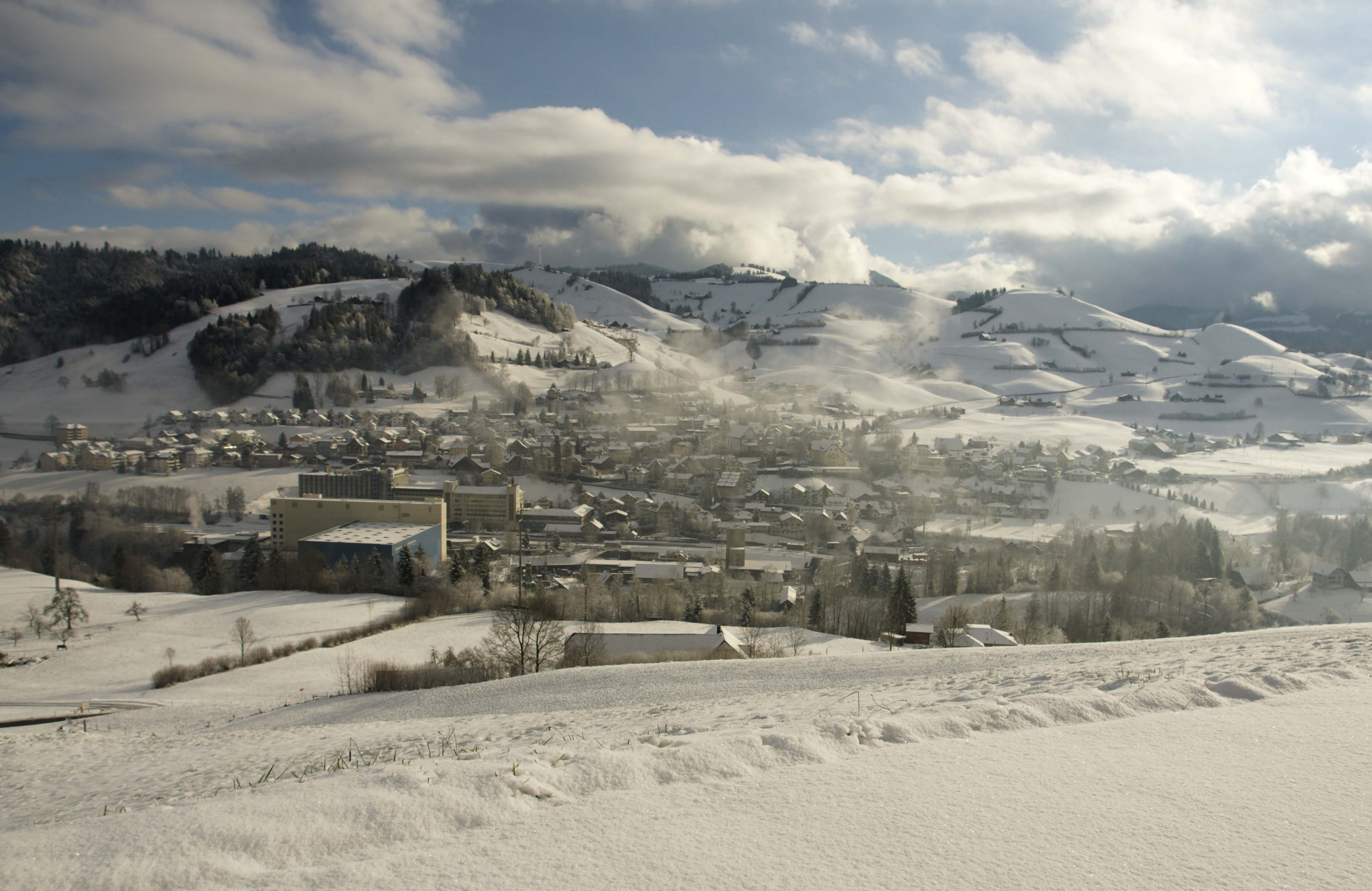 Entlebuch